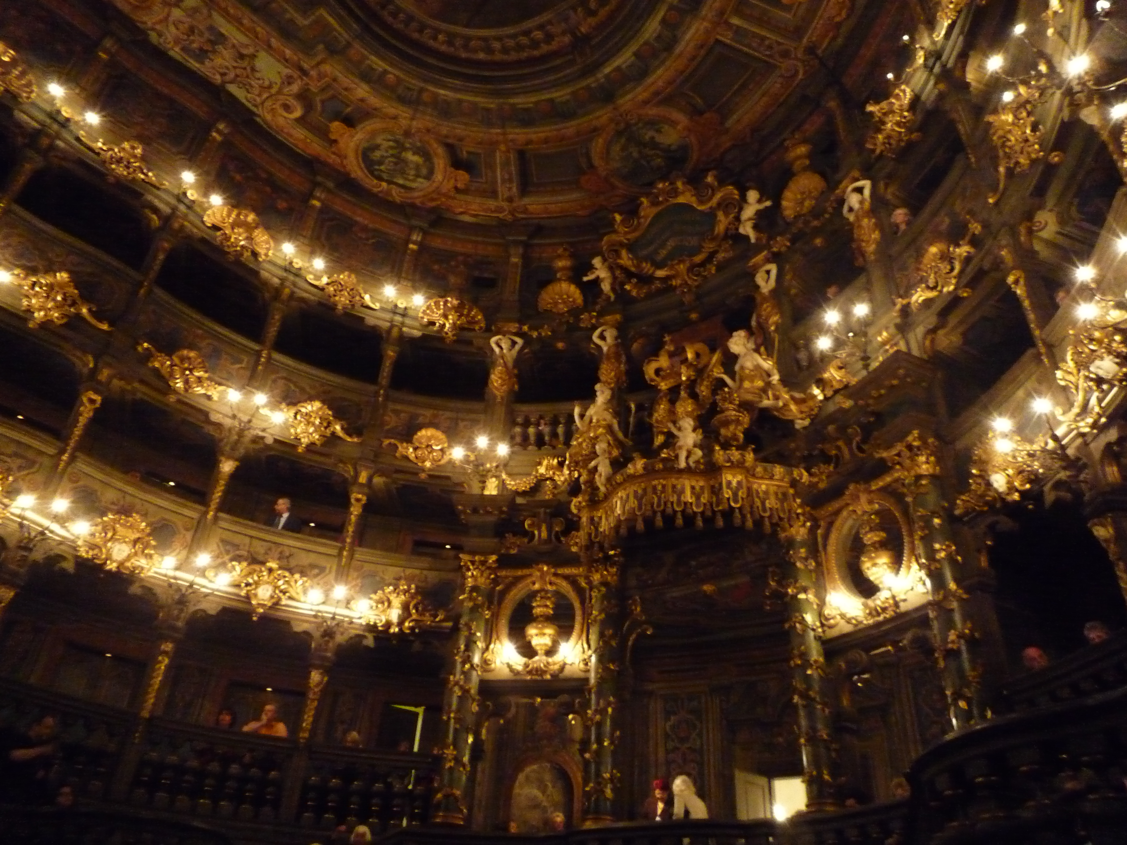 Margrave's Opera inerior (Bayreuth)